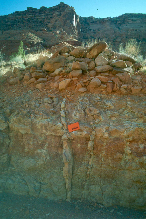 Clastic dike in the Chinle Formation in the Island In the Sky District of Canyonlands National Park, Utah. Taken May 9, 2002. Scale bar on notebook is 10 cm.